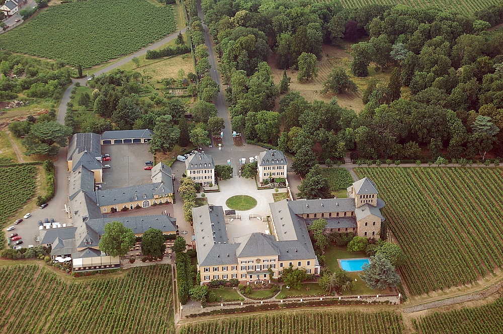 Schloss Johannisberg (Rheingau), Rheingau, Hessen, Germany